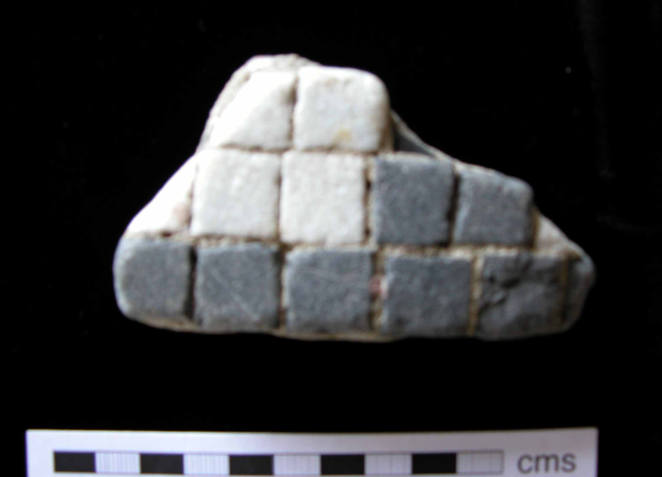 Fragment of mosaic pavement, comprising 5 white and 7 black tessarae cemented onto mortar backing. The fragment has been water rolled. Roman, almost certainly derived from the villa at Folkestone.